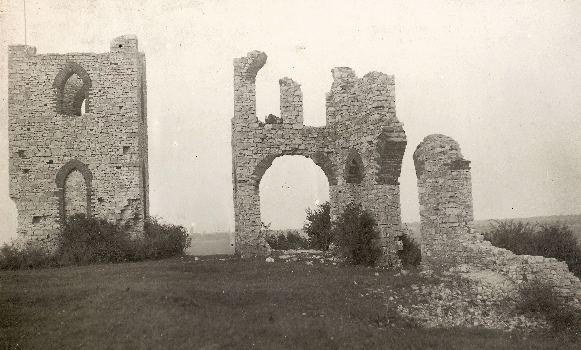 Ruins of Saint Florian's chapel in Rożniątów